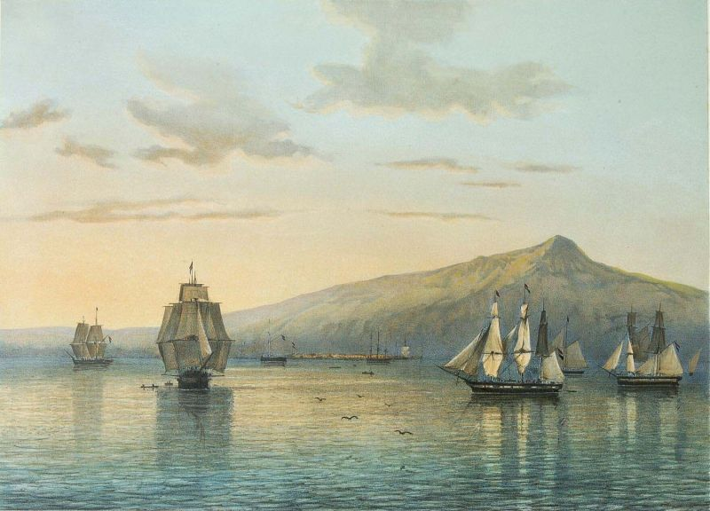 Seascape of Java — Abraham Salm; 1860s.